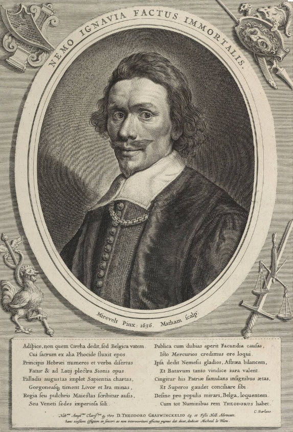 Dirk Graswinckel